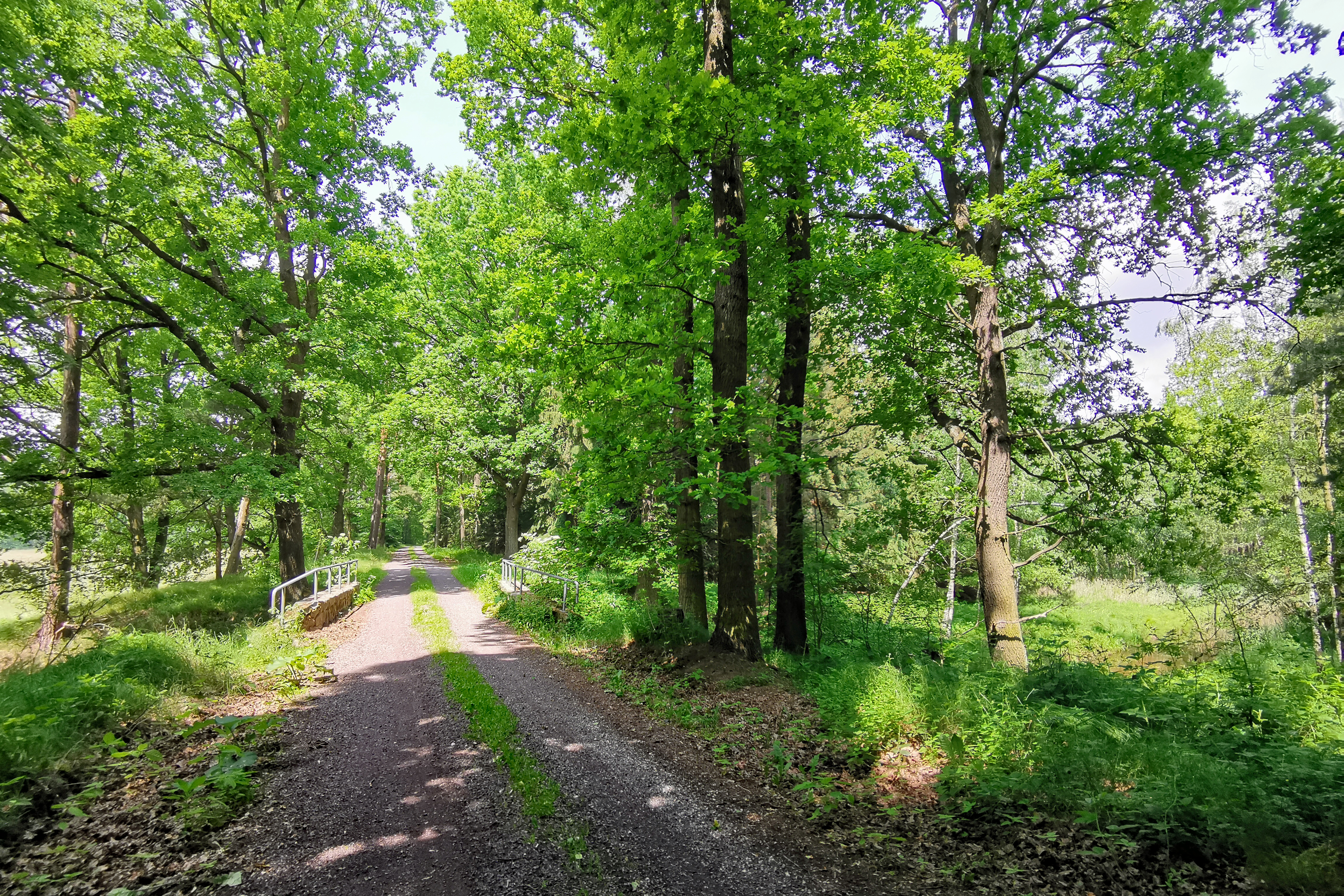 Former pond Schwarzer Teich in Southern part of Laußnitzer Heide (Saxony, Germany)